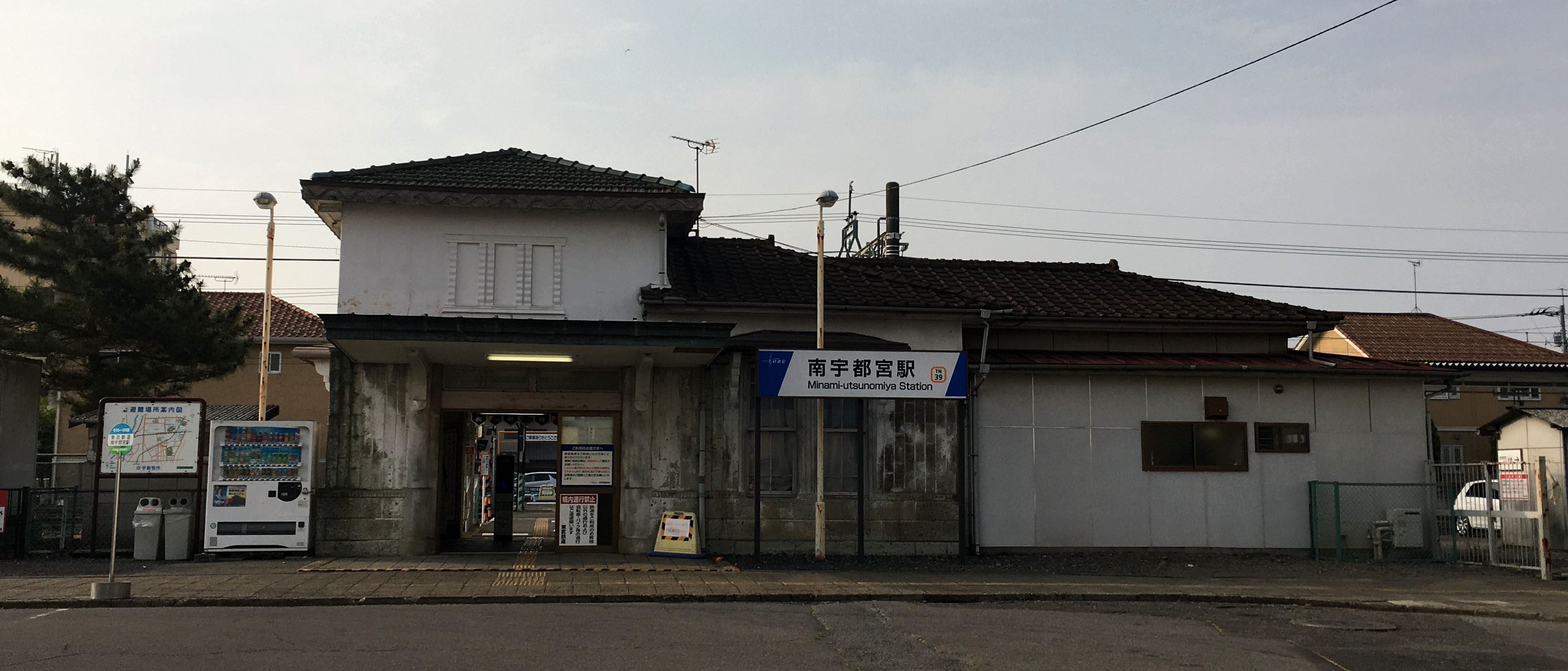 Minami-Utsunomiya Station (Tōbu Utsunomiya Line in Japan)